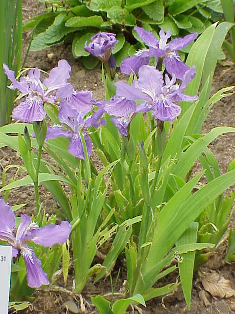 Species: Iris tectorum Family: Iridaceae Image No. 1